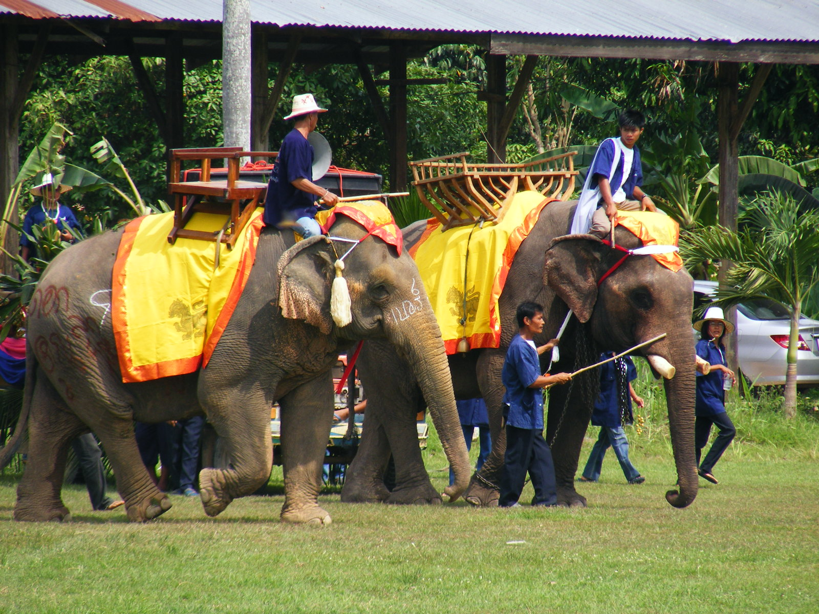 elephant parades in Ban Tuk (Si Satchanalai) Location: Si Satchanalai, Sukothai Province, Thailand.